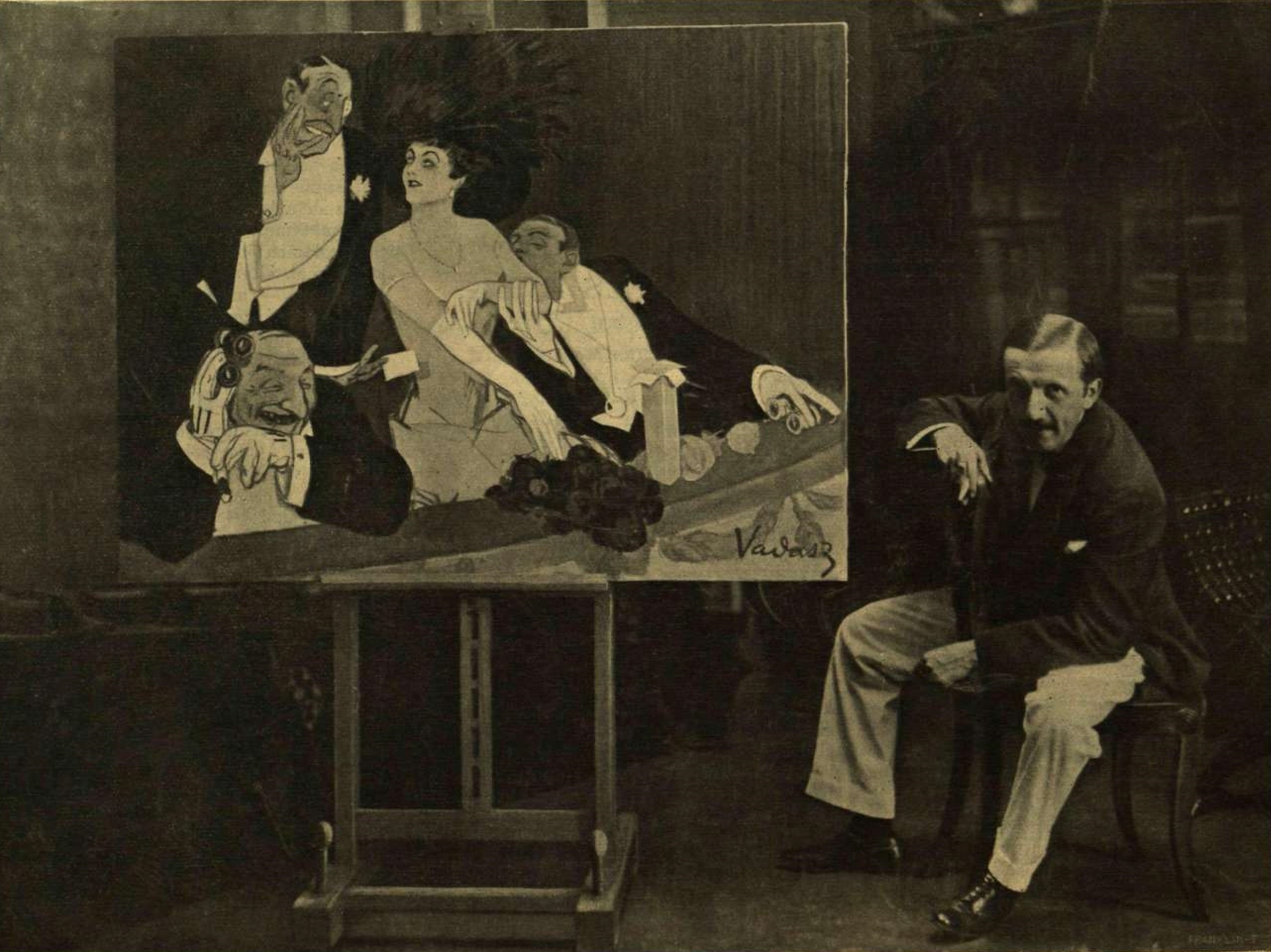 Miklós Vadász. Photograph by Rudolf Balogh.